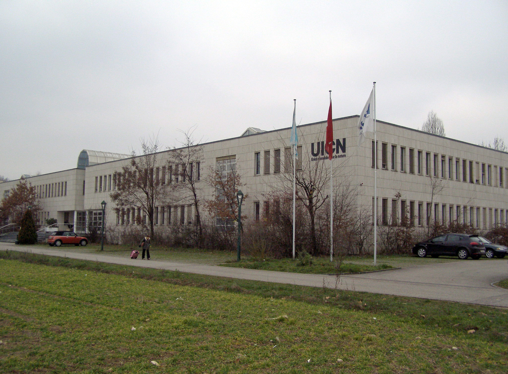 Headquarters of the IUCN in Gland, Switzerland, prior to construction of the IUCN Conservation Centre which opened next to the old headquarters building in June 2010.